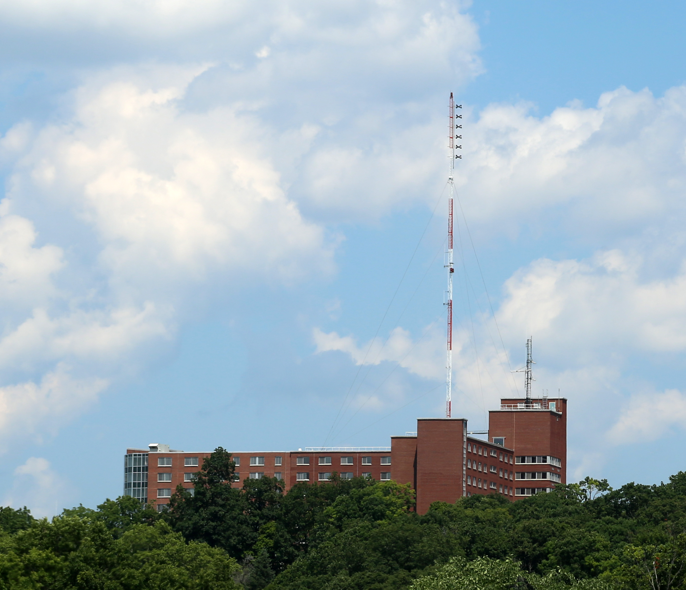 The WAER/88.3fm transmitter, atop Day Hall on the Syracuse University campus, viewed from the historic Oakwood Cemetery next door. Details: Site Location: 43-02-01.2 N 76-07-51.7 W Effective Radiated Power: 50 kW Transmitter Output Power: 17.7 kW Antenna Center HAAT: 84 m (276 ft.) Antenna Center AMSL: 282 m (925 ft.) Antenna Center HAG: 82 m (269 ft.) Site Elevation: 200 m. (656 ft.) Height Overall*: 89 m (292 ft.) Directional Antenna Antenna Make/Model: Electronics Research Inc. ERI LP-6E-DA-HW, half wave spacing between bays Also on the tower, at a lower elevation, is the antenna of WJPZ/89.1fm. Details: Site Location: 43-02-01.2 N 76-07-51.7 W Effective Radiated Power: 1 kW Transmitter Output Power: 0.228 kW Antenna Center HAAT: 37 m (121 ft.) Antenna Center AMSL: 234 m (768 ft.) Antenna Center HAG: 37 m (121 ft.) Site Elevation: 197 m. (646 ft.) Height Overall: 43 m (141 ft.) Directional Antenna Antenna Make/Model: Shivley 6025-2-1/1/1-DA, 3 bays, 0.5 wavelength spaced